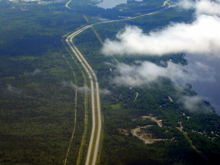 Nova Scotia provincial highway 118, north of Dartmouth. (Self-made)